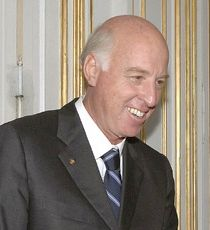 A portrait of italian Prefect Carlo Mosca